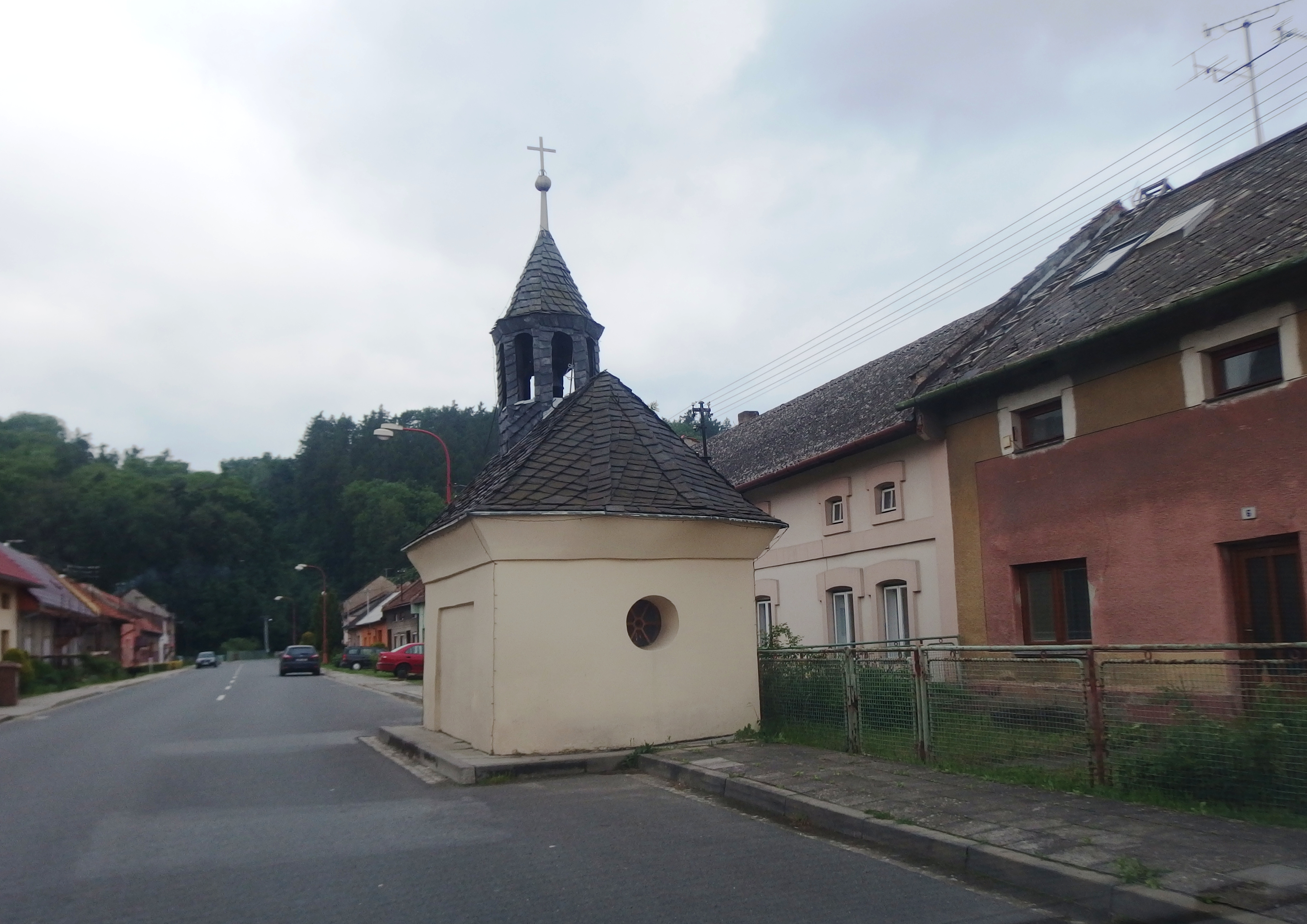 Lipník nad Bečvou, Přerov District, Czech Republic, part Nové Dvory.